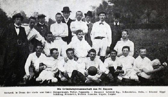 An early Bayern Munich football squad.